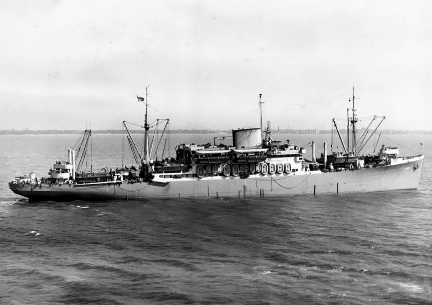 The U.S. Navy atttack transport USS Charles Carroll (APA-28) in Hampton Roads, Virginia (USA), on 6 May 1943. Her armament has been modified, the 127mm/51 gun aft was removed and two twin 40mm anti-aircraft mounts added, one in a raised position forward and the other on the stern. Note that the ships of this class had a tendency to appear trimmed down by the stern.